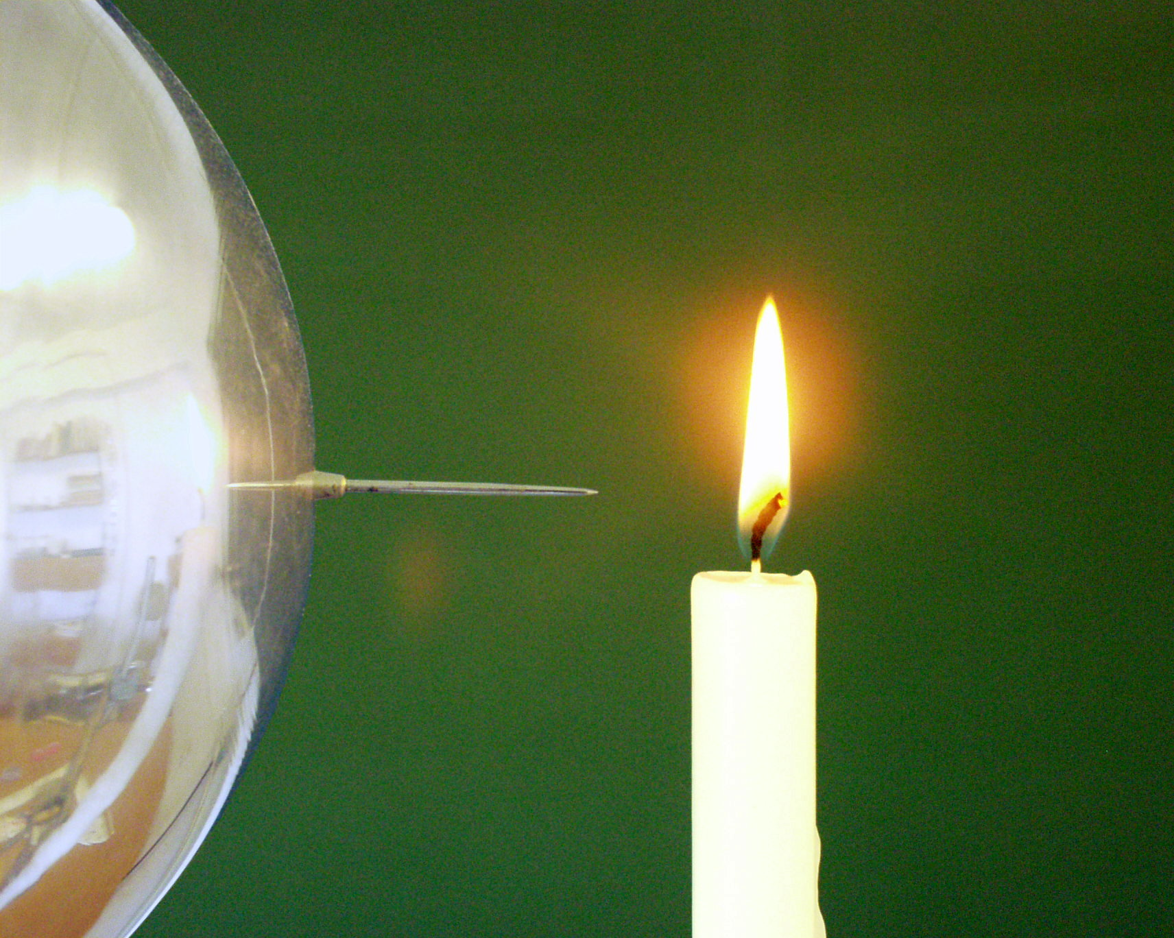 Electric wind (U = 0 V).